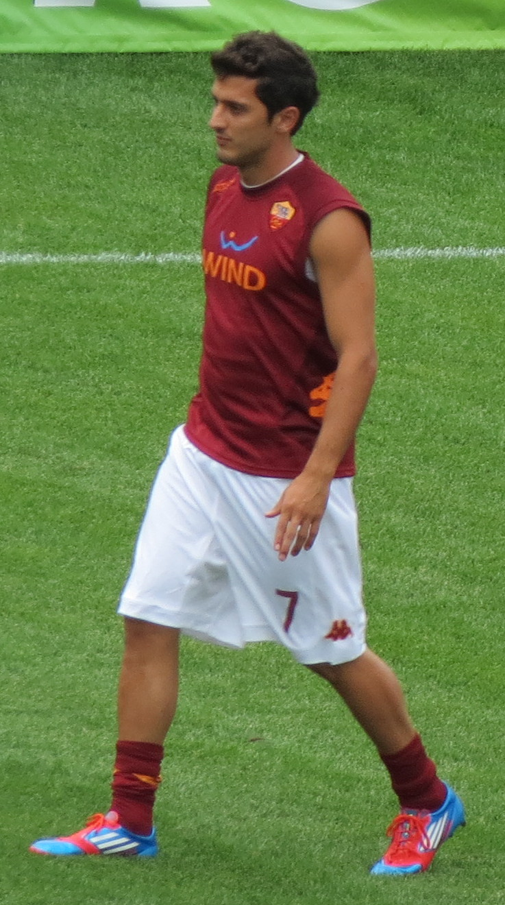 Marquinho, Jose Angel and Francesco Totti of Roma training ahead of their friendly match vs Zagłębie Lubin.